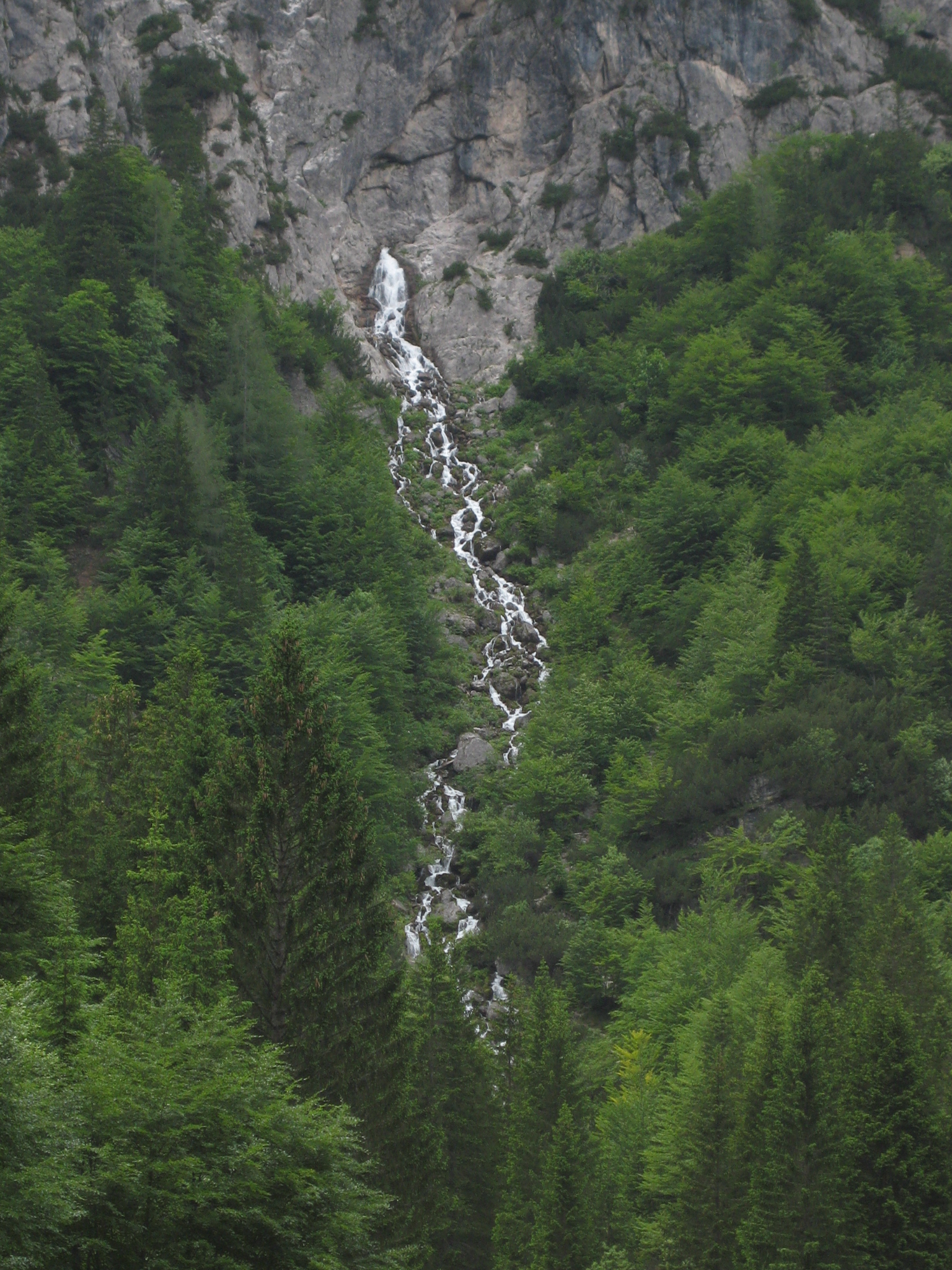 Nadiža, Karst spring in the Julian Alps; it is the first source of the river Sava Dolinka, tributary of the Danube, Slovenia. The water emerges at a fissure or joint of bedded rocks. In the glacial-carved valley, Planica valley, the creek seeps into the valleys glacial sediments after bare 300m and re-emerges through the porous chalk bottom of a pond called Zelinci.